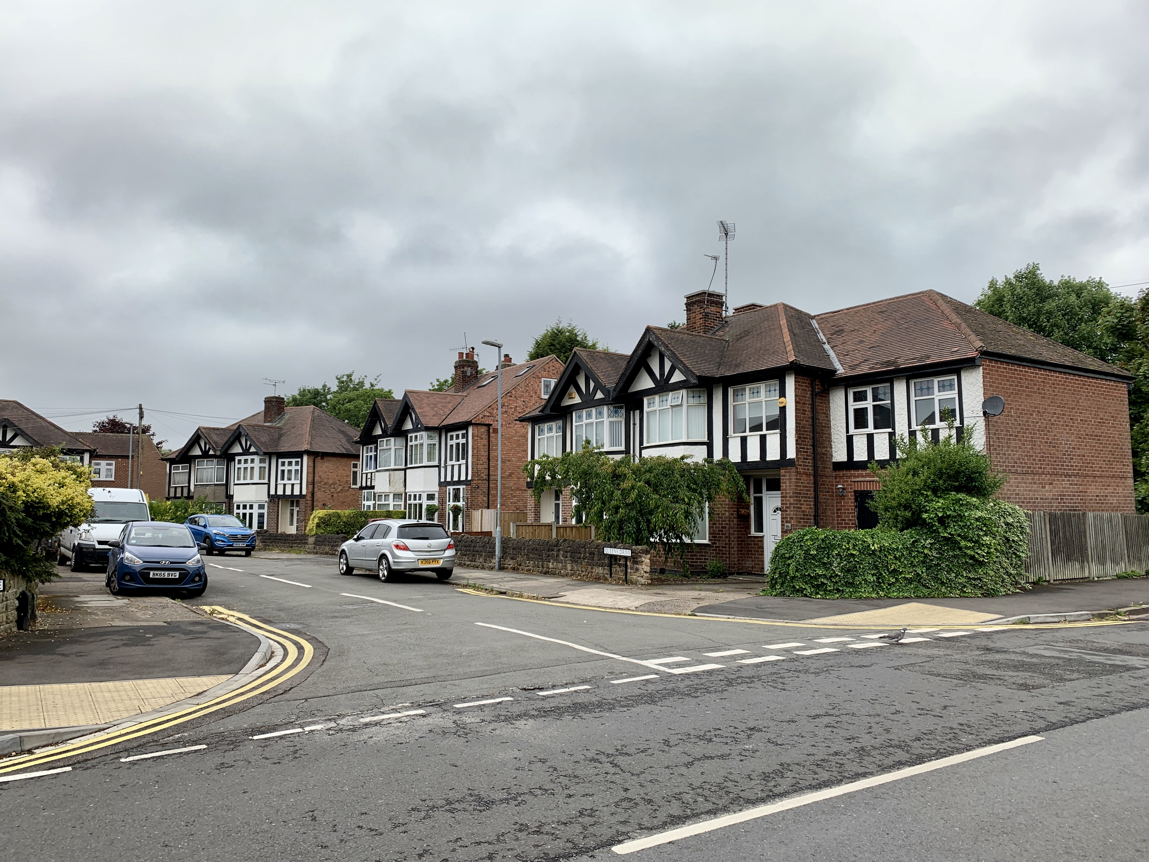 Built by the Ideal Homes Development Company between 1932 and 1935 and designed by the architect Henry Hardwick Dawson